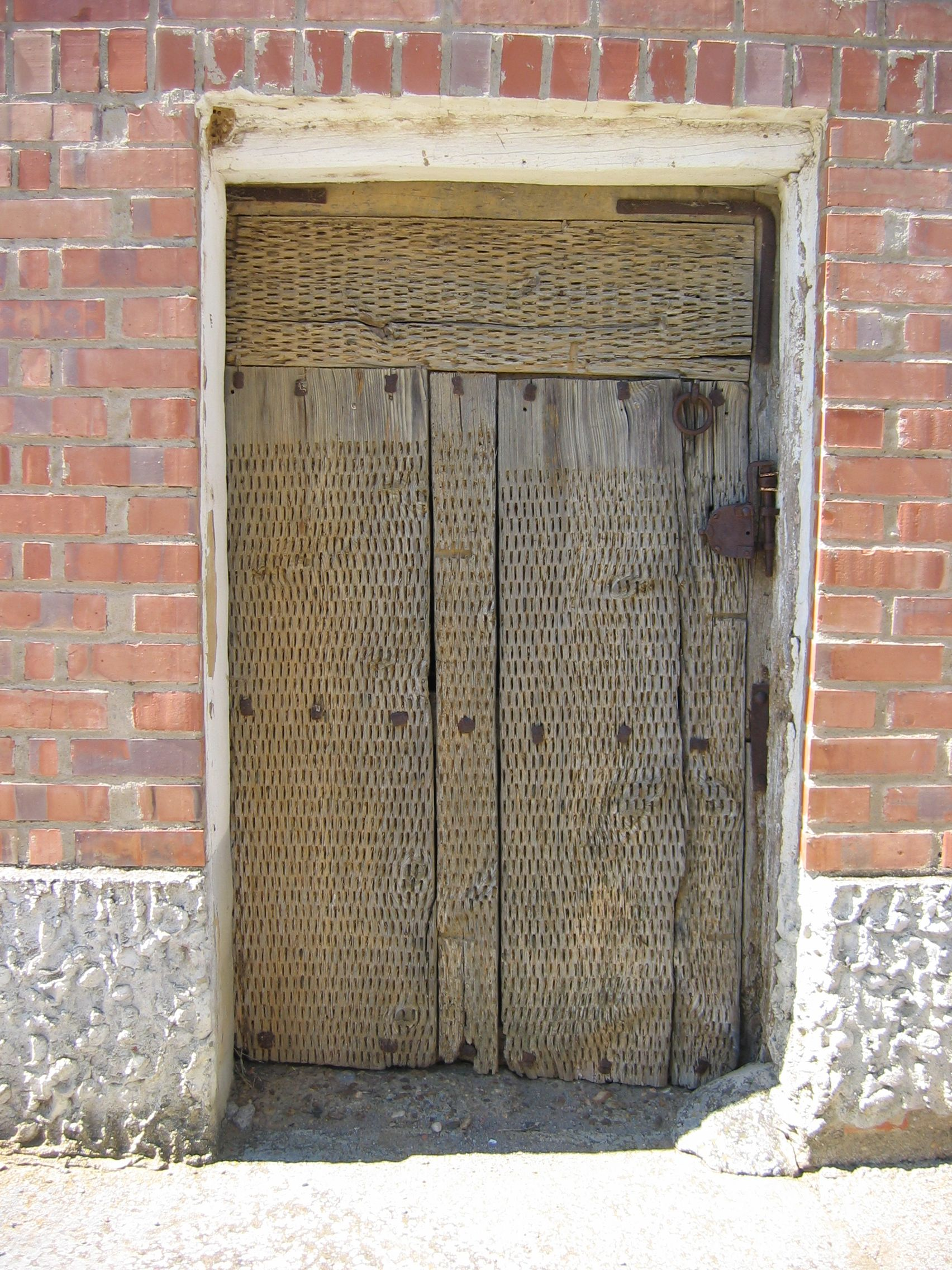 Typical door of a wine cellar made with an old threshing board in Osornillo (province of Palencia, Spain).